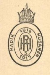 Cs. és Kir. 3. Haadik-huszárezred címere